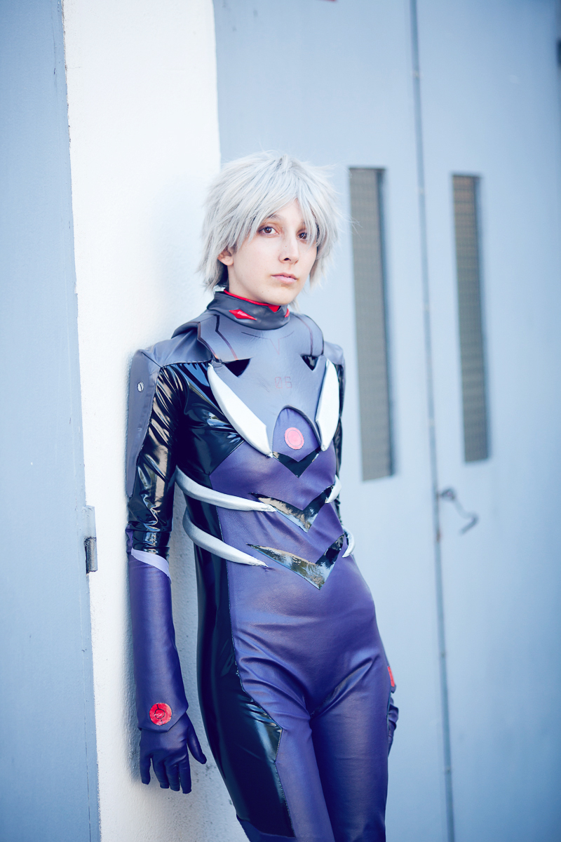 A cosplay of Kaworu Nagisa (Evangelion 3.0) in plugsuit.